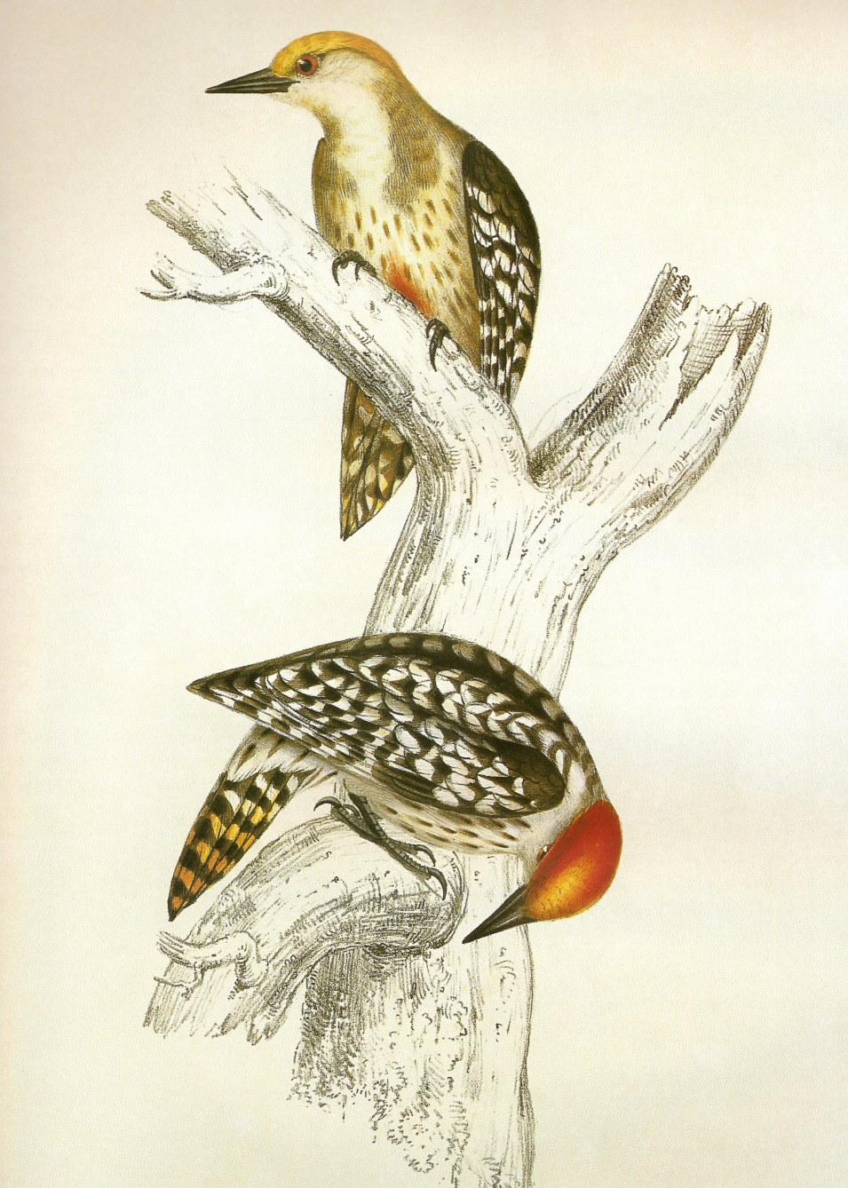 Mahratta Woodpecker (Yellow-fronted Pied Woodpecker, Yellow-crowned Woodpecker) Dendrocopos mahrattensis (Latham)